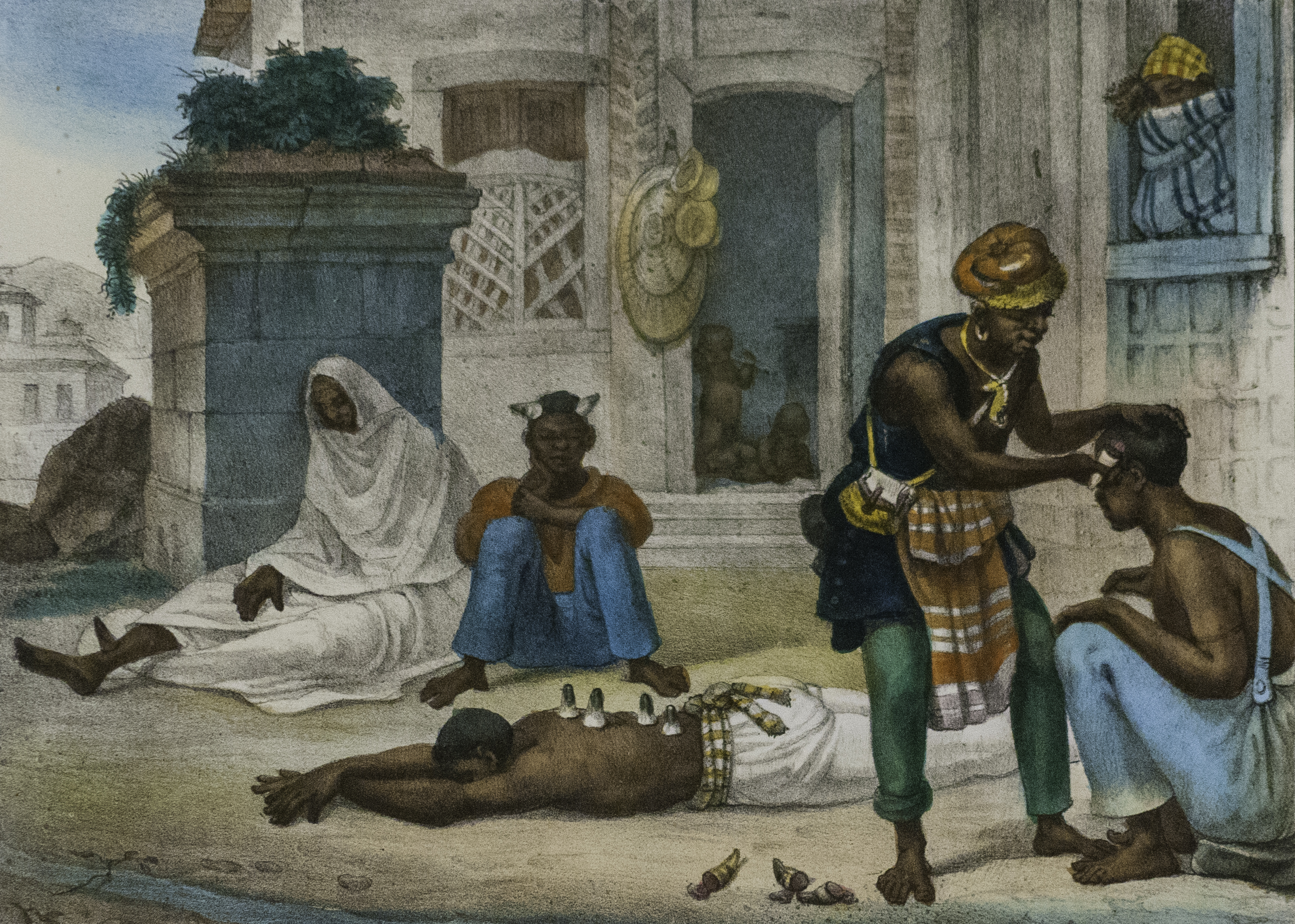 Negro surgeons by Debret 1935